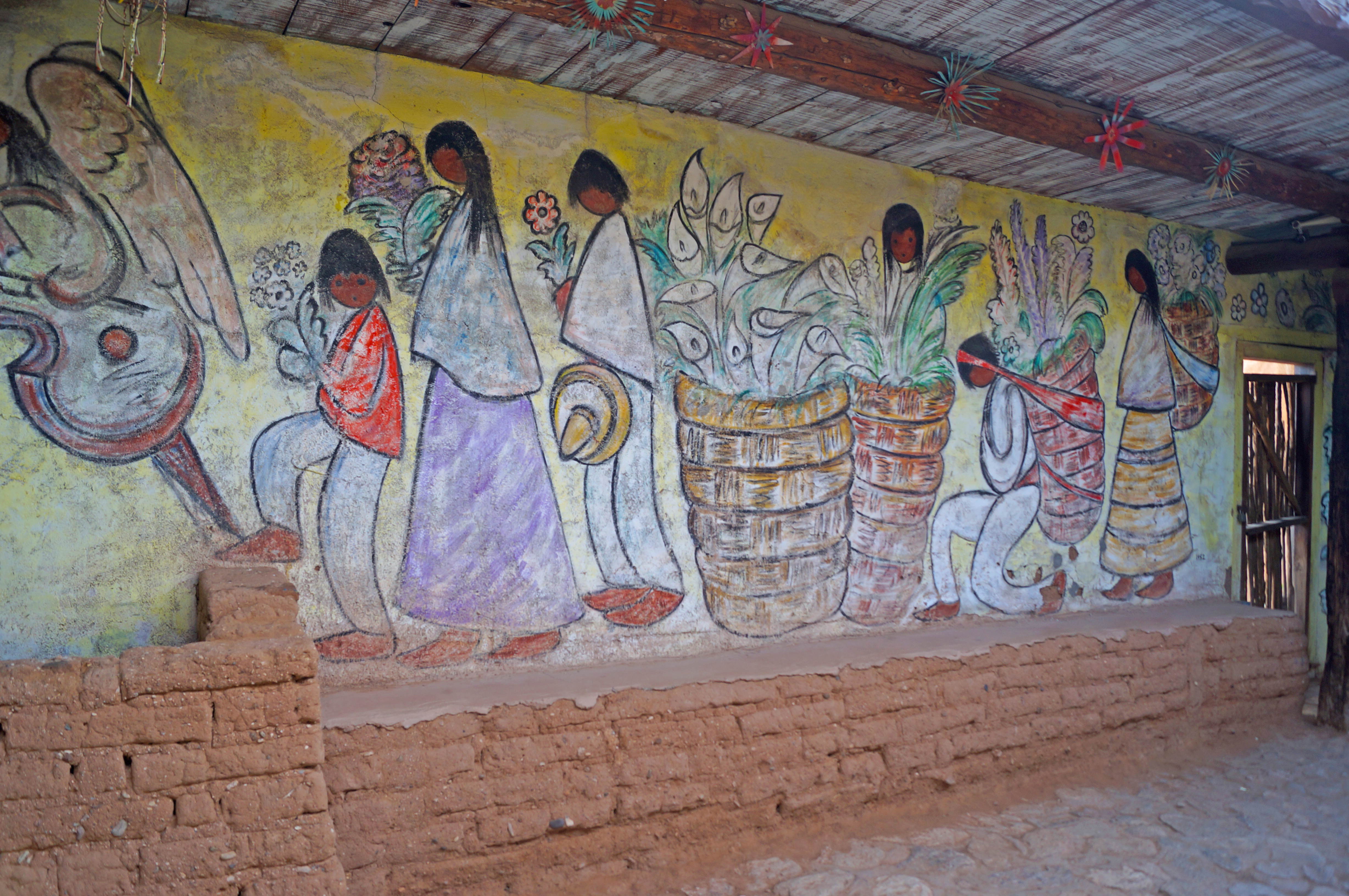 Mural in the Mission, painted by DeGrazia circa 1952